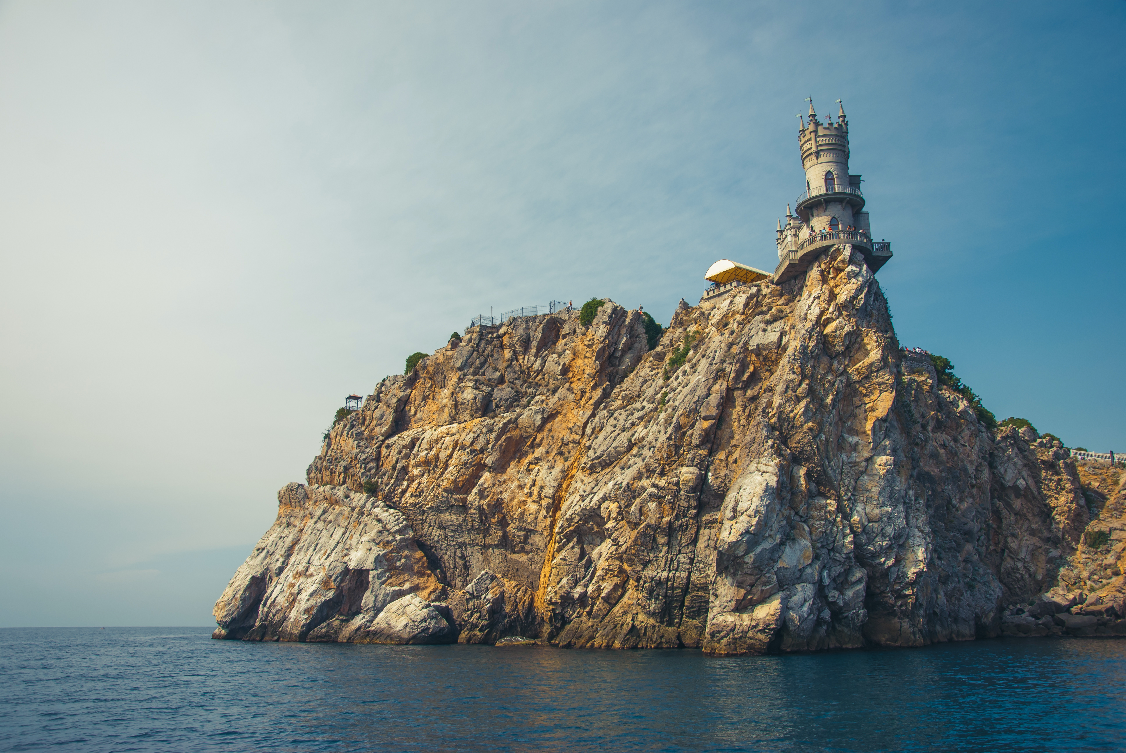 Palace of the «Swallow's Nest» (architectural monument of national significance). Crimea, Gaspra